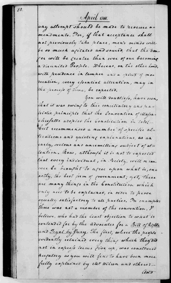 Letter from George Washington to Marie Joseph Paul Yves Roch Gilbert du Motier, Marquis de Lafayette, April 28, 1788, discussing the prospects for ratification of the United States Constitution and the need for a Bill of Rights. Source: George Washington Papers at the Library of Congress, 1741-1799: Series 2 Letterbooks; url = [1]. Automatically converted to PNG The PNG crusade bot automatically converted this image to the more efficient PNG format. The image was originally uploaded as "Washington.Lafayette.0428.1788.gif". Previous file history 19:51:26, 4 March 2006 . . Kaisershatner (Talk | Contribs) . . 600x991 (133,935 bytes) (Letter from :en:George Washington| to Marie Joseph Paul Yves Roch Gilbert du Motier, :en:Marquis de Lafayette| , April 28, 1788, discussing the prospects for ratification of the :en:United States Constitution| and the need for a :en:United States Bill of Rights)